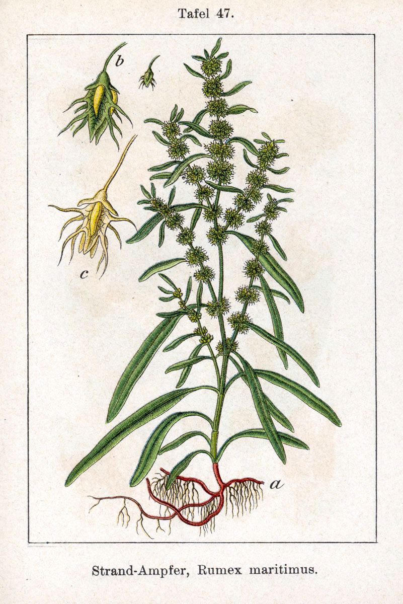 Rumex maritimus L. Original Description Strand-Ampfer, Rumex maritimus